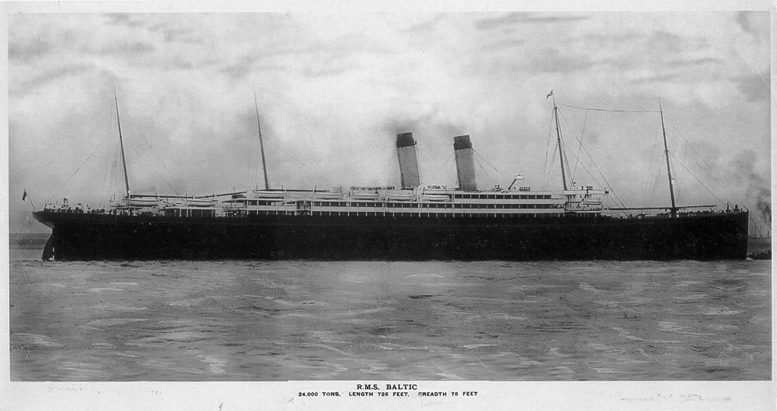 RMS Baltic in an old postcard